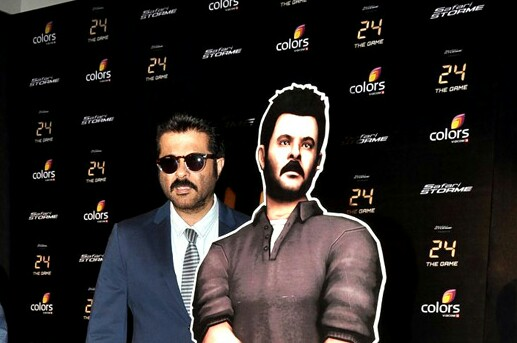 Anil Kapoor at ’24’ game launching event